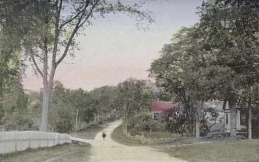 Street Scene, Ossipee, NH; from a c. 1910 postcard published by L. O. Moulton.